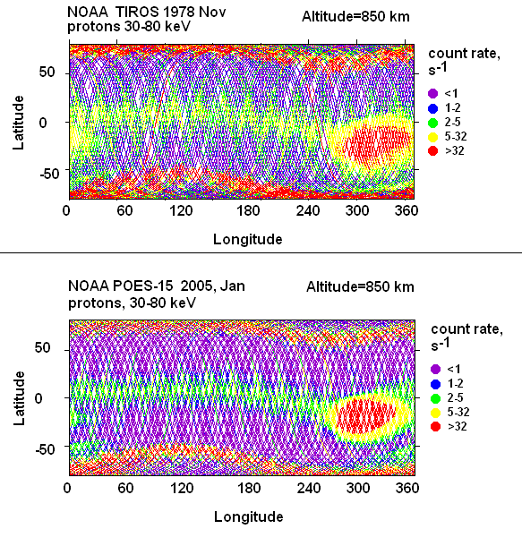 Countrates for proton elementary particles in the energy range of 30-80 keV (kilo electronVolt) of two satellites measured in their orbits around the earth at a height of 850 kilometers. Horizontal axis: geographical longitude, vertical axis: geographical latitude. The red island with count rates over 32/second constitutes the South Atlantic Anomaly (SAA). The SAA had shifted to lower longitudes in 2005 (center around 300 degrees) with respect to 1978 (330 degrees). NOAA Tiros: the first? Tiros-N weather satellite of the U.S. National Oceanic and Atmospheric Administration. NOAA POES-15: U.S. National Oceanic and Atmospheric Administration low-altitude Polar Orbiting Environmental Satellites (POES)-15 satellite.